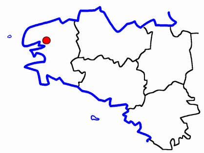 Description: Map for localisazion of cantons of Bretagne region in France Source: made by Hervé Tigier in april 2005